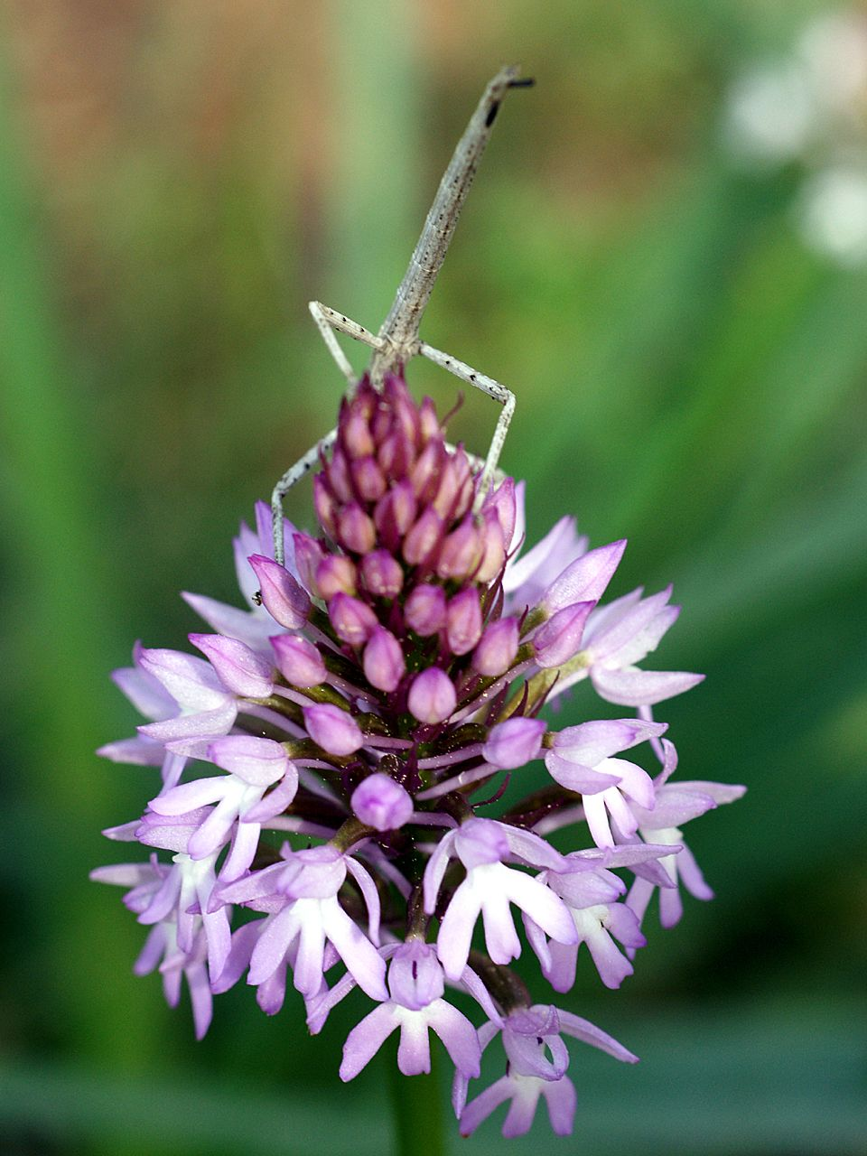 Anacamptis pyramidalis - flowers